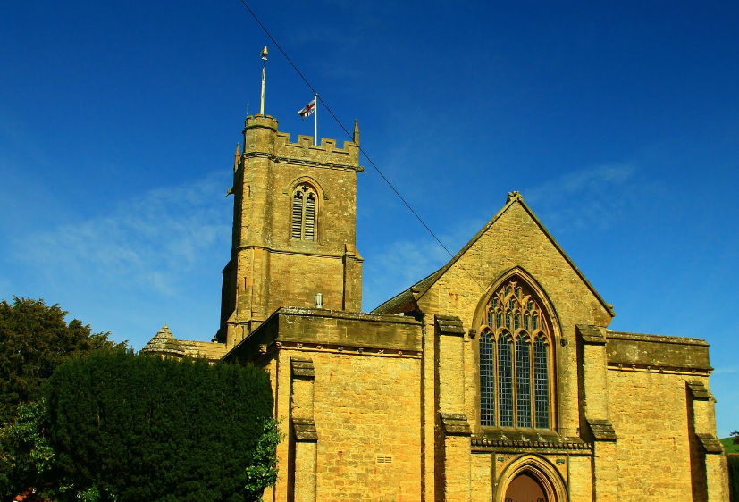 Recent image of St. Mary's Chuch Bridport